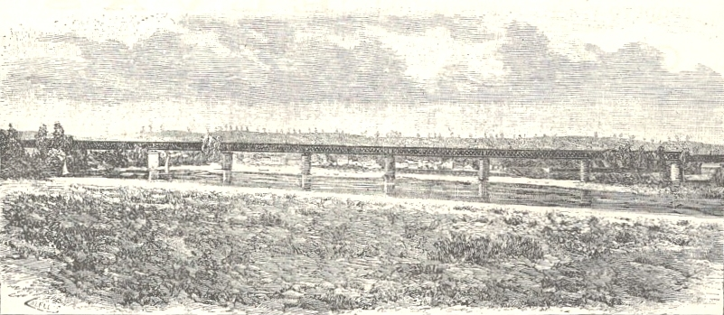 Abrantes Railway Bridge, in the Beira Baixa Railway, in Portugal. This image was taken from the Gazeta dos Caminhos de Ferro magazine No. 1785, of the 1st May 1962, and scanned by the Hemeroteca Municipal de Lisboa. It was originally published on the O Occidente magazine No. 376, of the 1st June 1889.